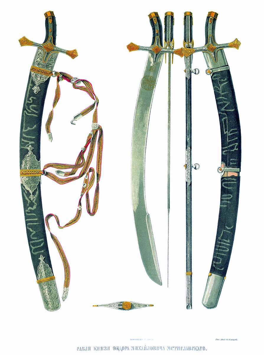 Sabre of Feodor Mikhailovith Mstislavsky.